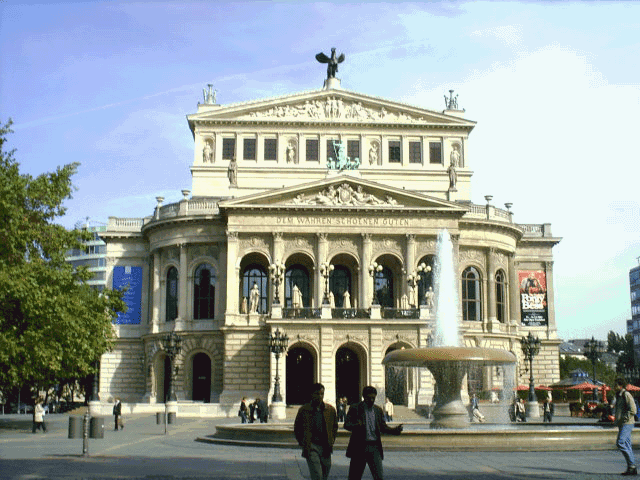 The old opera house